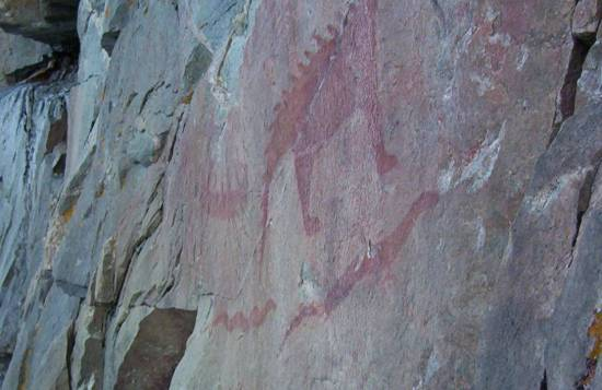 Pictographs at Agawa Rock in Lake Superior Provincial Park This is said to be Misshepezhieu, a water spirit who controlled Lake Superior, with a canoe and serpents. My own photo